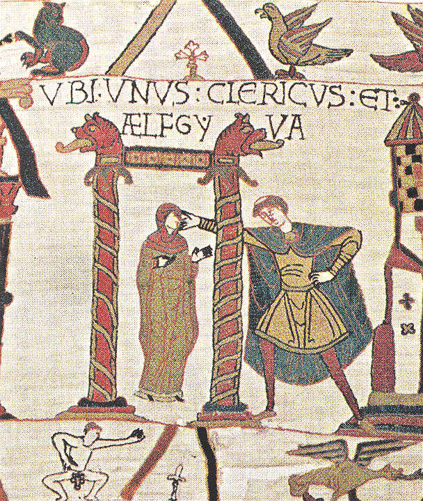 Section of Bayeux Tapestry showing Aelfgyva, an unknown woman